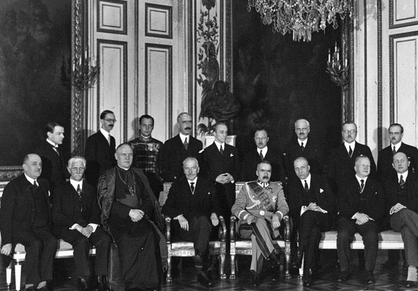 Group photo of participants at the President's visit to the Royal Castle. Seated from left: Deputy Extraordinary and Minister Plenipotentiary of Hungary to Poland Sándor Belitska, Marshal of the Sejm Daszynski Ignatius, Archbishop Alexander Kakowski, Polish President Ignacy Mościcki, Marshal Jozef Pilsudski (received Order of the Hungarian Grand Cross of Merit), Minister of Foreign Affairs of Hungary Lajos Walko, Senate Speaker Juliusz Janusz Szymanski, Polish Foreign Minister August Zaleski, Prince Janusz Radziwill (4th from left), Deputy Foreign Minister Alfred Wysocki (second from right).